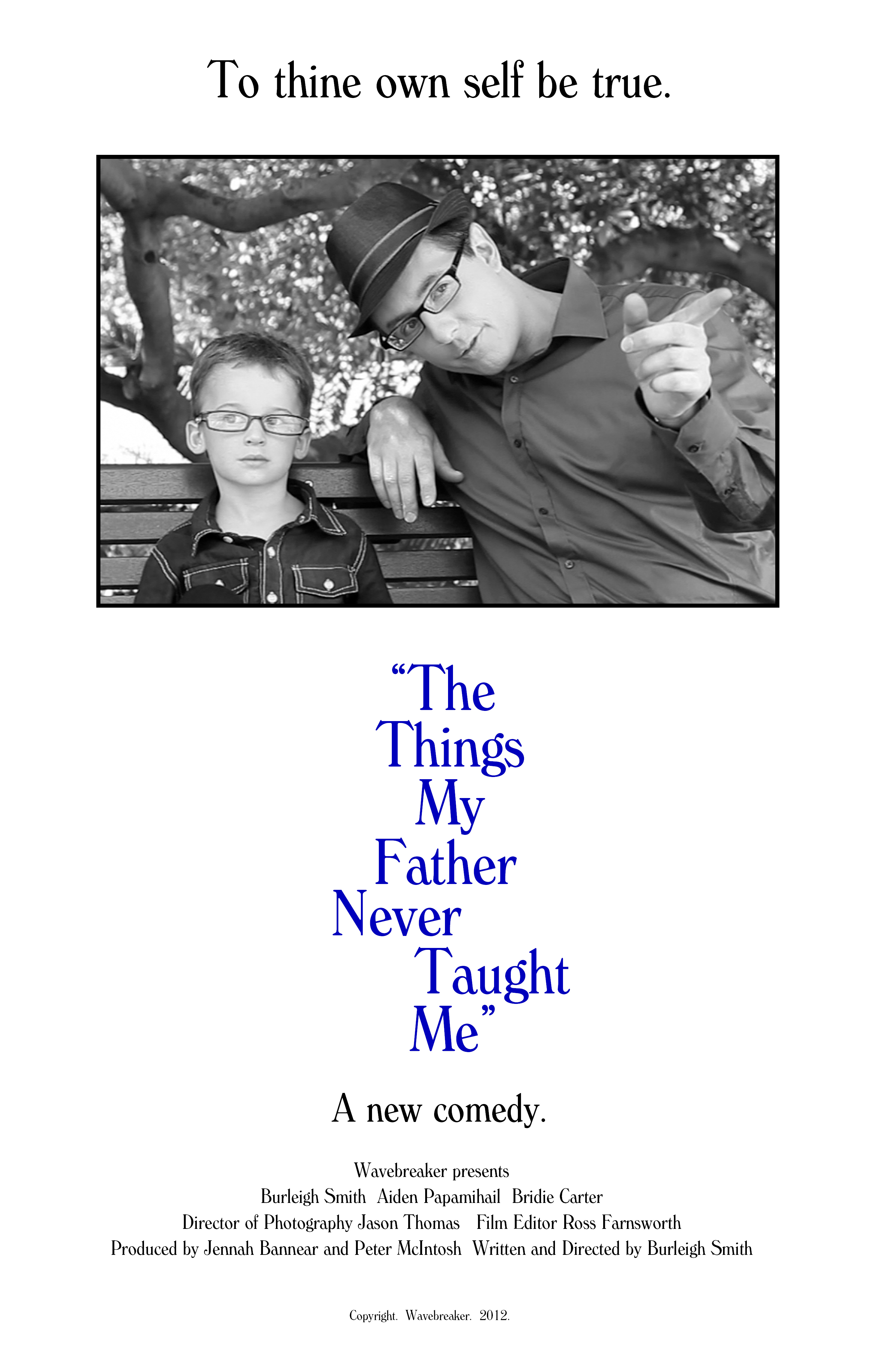 The Things My Father Never Taught Me poster